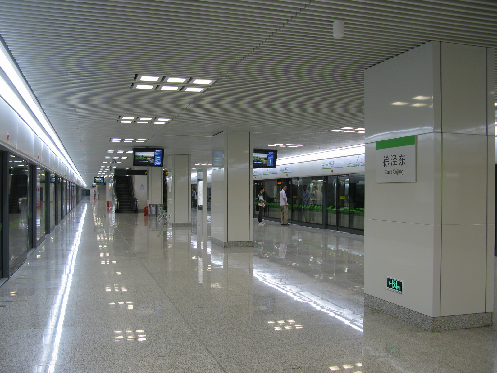 Line 2 Platform of East Xujing Station, Shanghai Metro